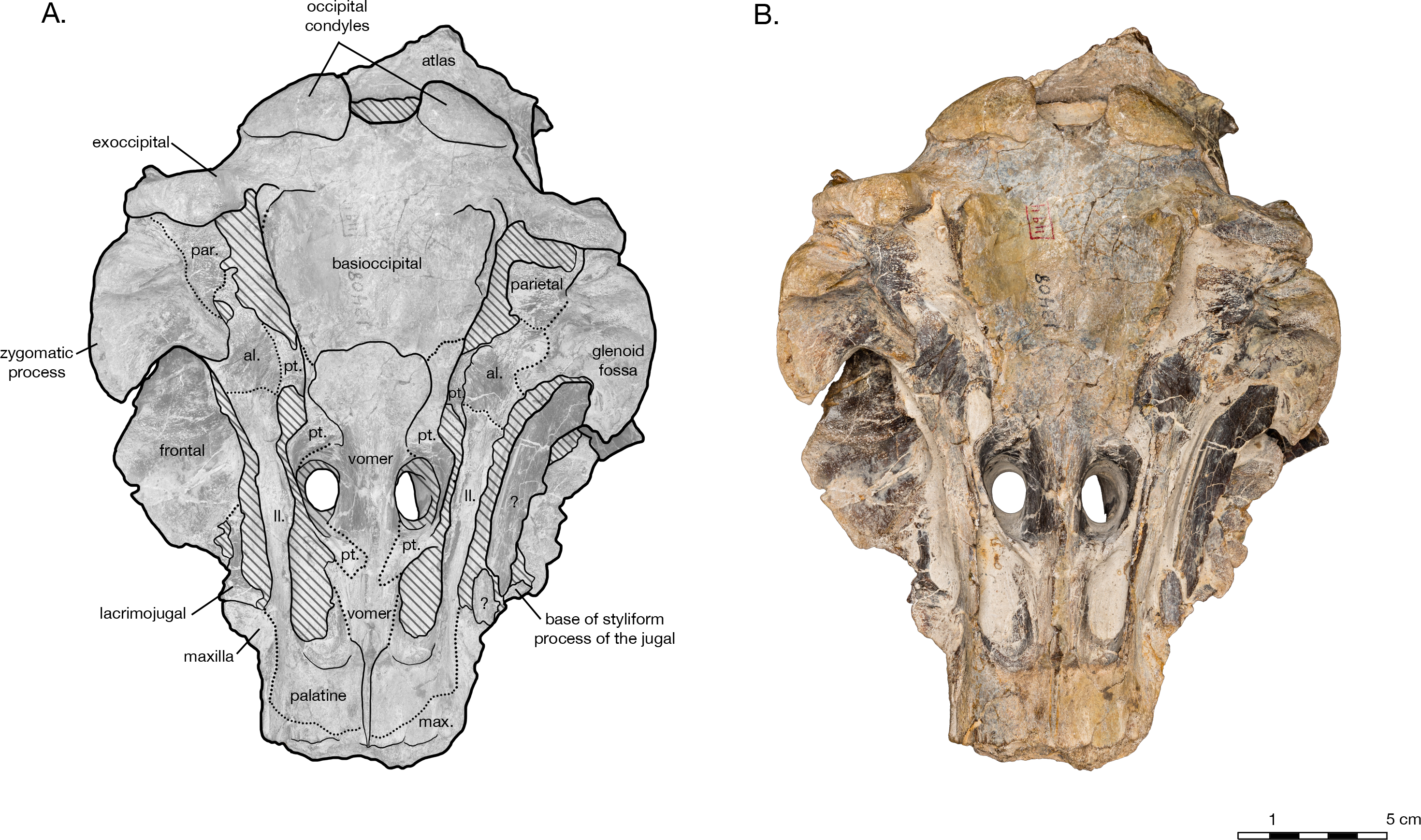 Skull of the holotype of Allodelphis pratti (YPM 13408) in ventral view. (A) Illustrated skull with low opacity mask, interpretive line art, and labels for skull elements. Dotted lines indicate uncertainty of sutures and hatched lines indicate sediment obscuring the fossil. The symbol “?” denotes a displaced skull fragment of unknown origin. (B) photograph of skull in ventral view, photography by James Di Loreto, Smithsonian Institution. Courtesy of the Division of Vertebrate Paleontology; YPM 13408, Peabody Museum of Natural History, Yale University, New Haven, Connecticut, USA; .